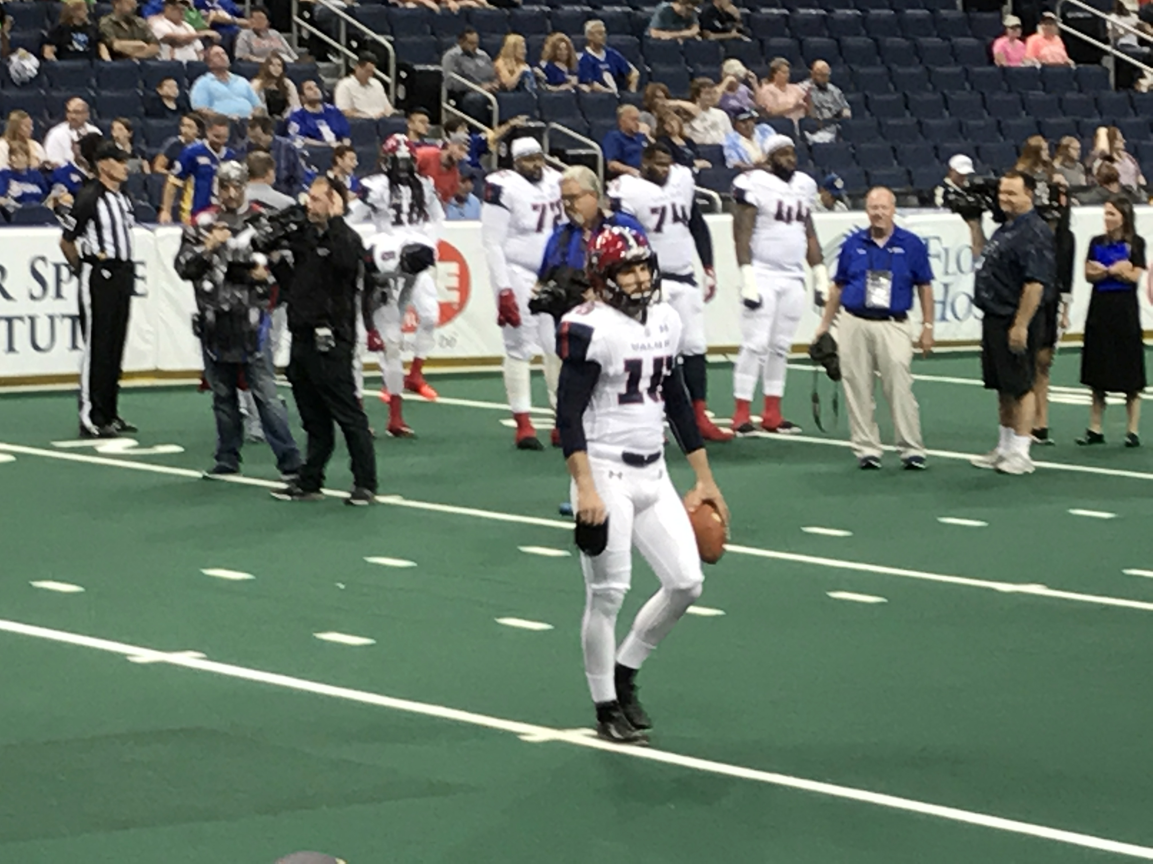 T. C. Stevens